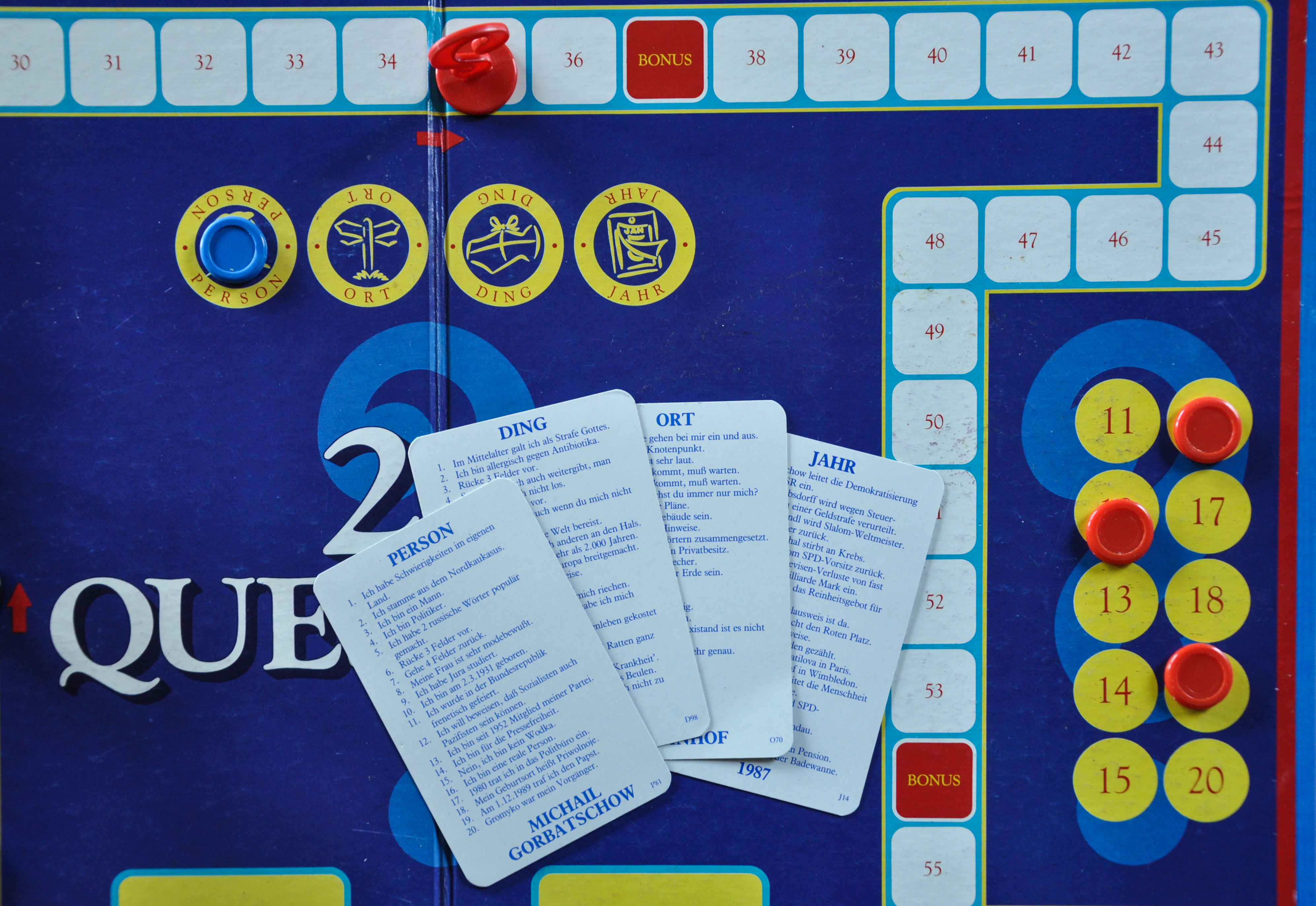 matrials of the board game 20 Questions